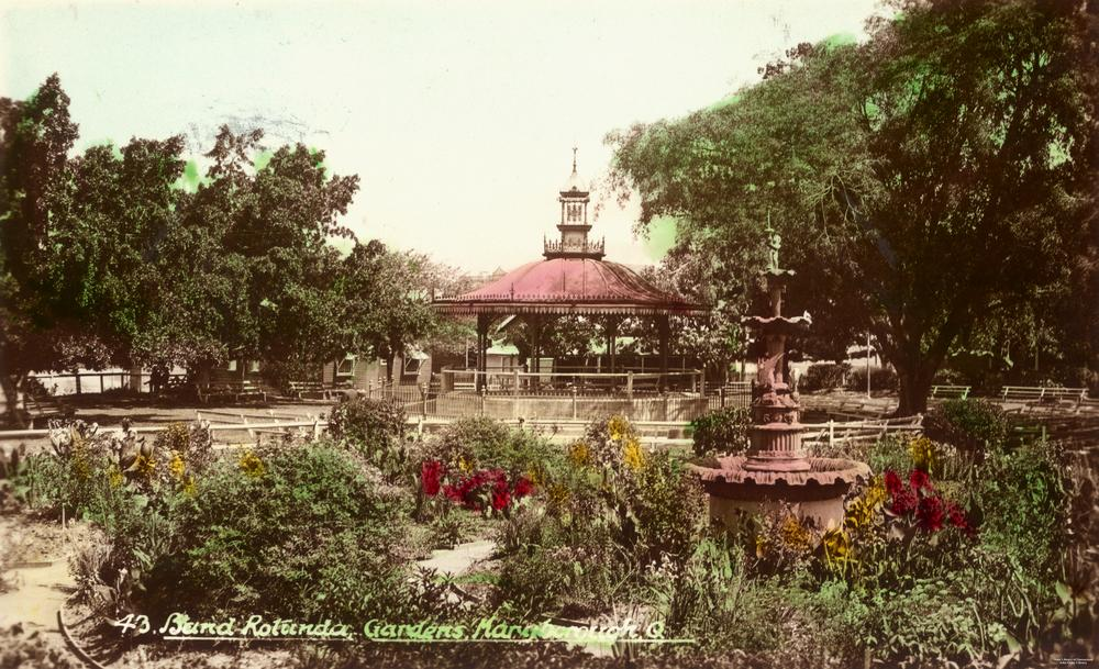 Band Rotunda in Queen's Park, Maryborough, ca. 1930. Image shows the band rotunda nestled amongst the trees of the park. A fountain appears in the foreground.